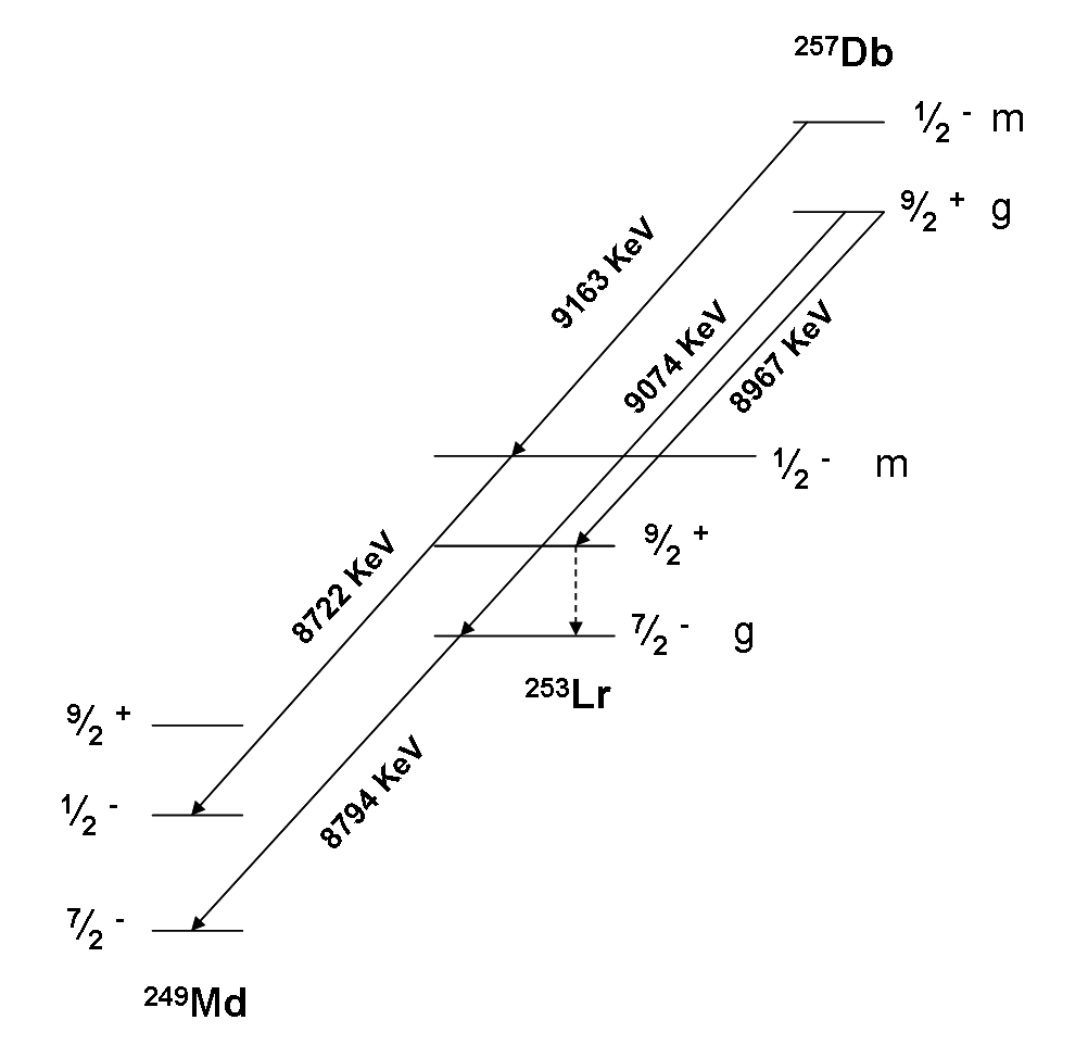 Decay scheme proposed for 257Db